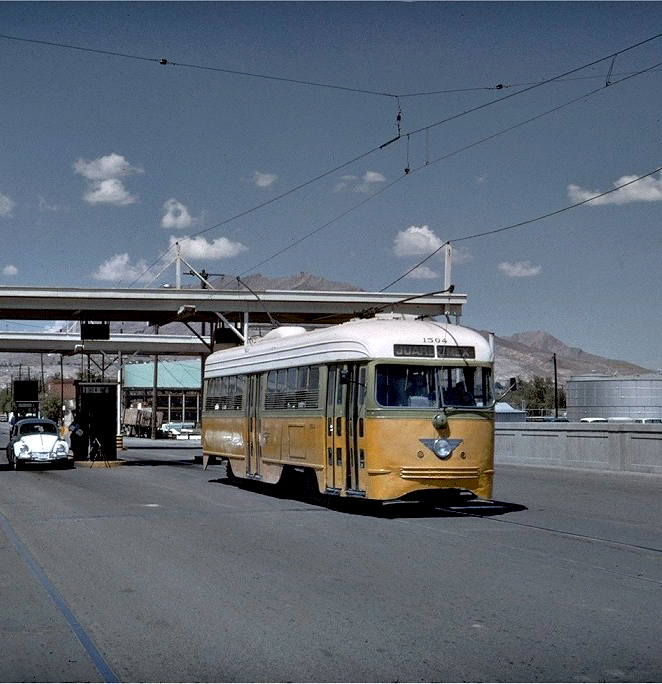 A streetcar operating on the international streetcar line that connected El Paso, Texas, USA, with Ciudad Juárez, Mexico, until 1973. The car in this photo is southbound and has just crossed the border, entering Mexico. (Author's caption: A slide that my father made in the sixties near the Mexican border.)